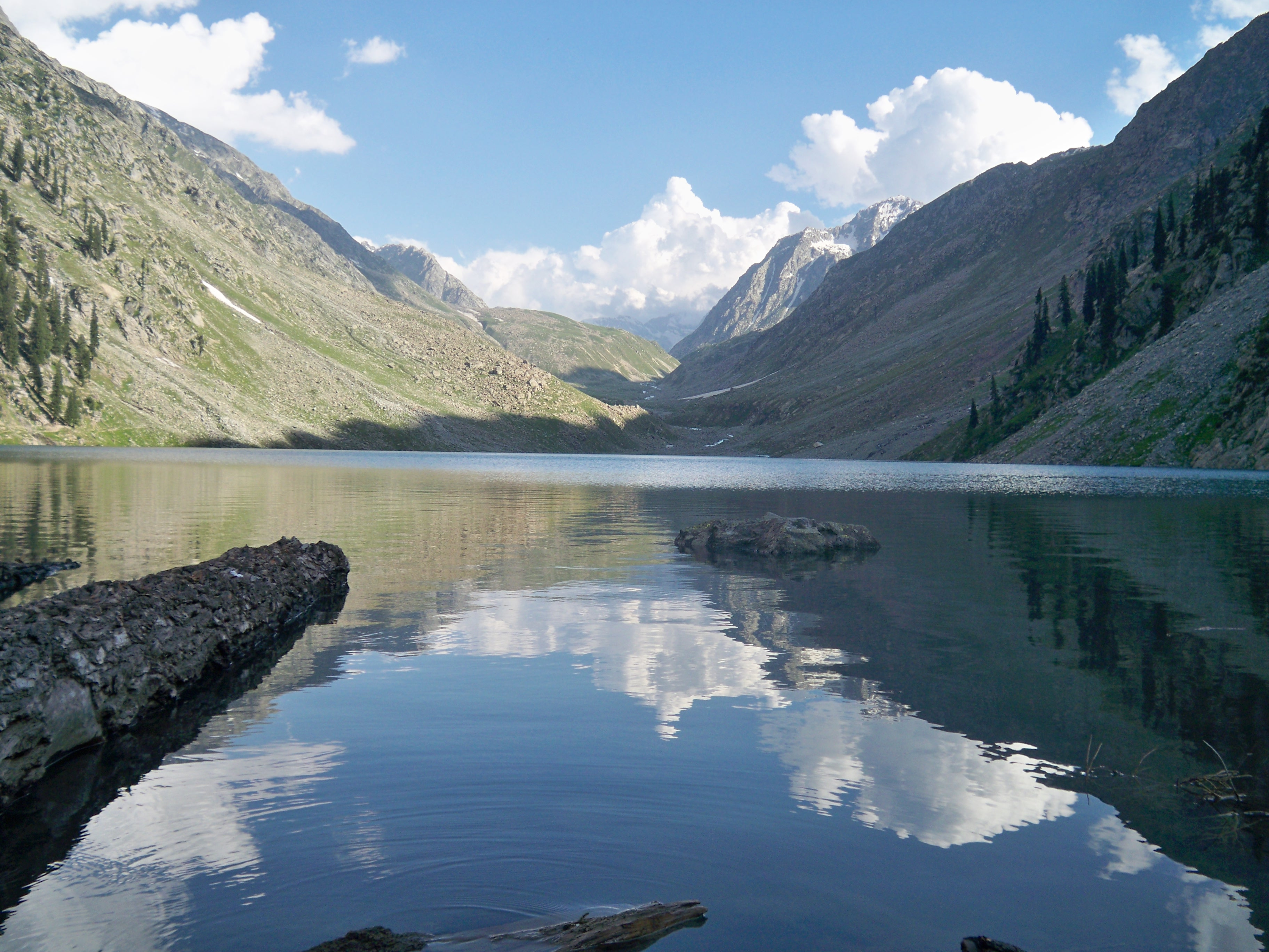 Kandol (or Kundol?) Lake, Swat Valley, Pakistan